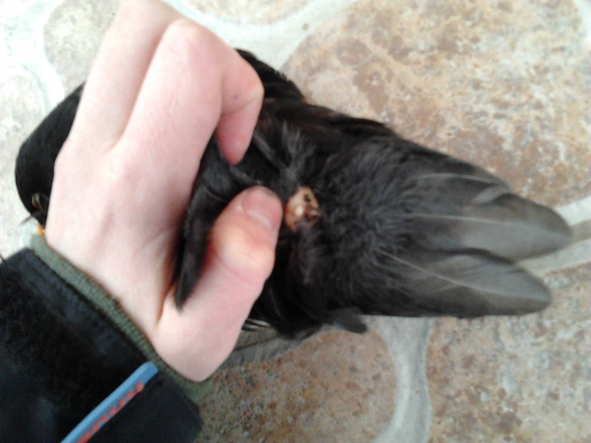 Dead male of Turdus merula (tail is removed) and his uropygial gland. Killed by car.